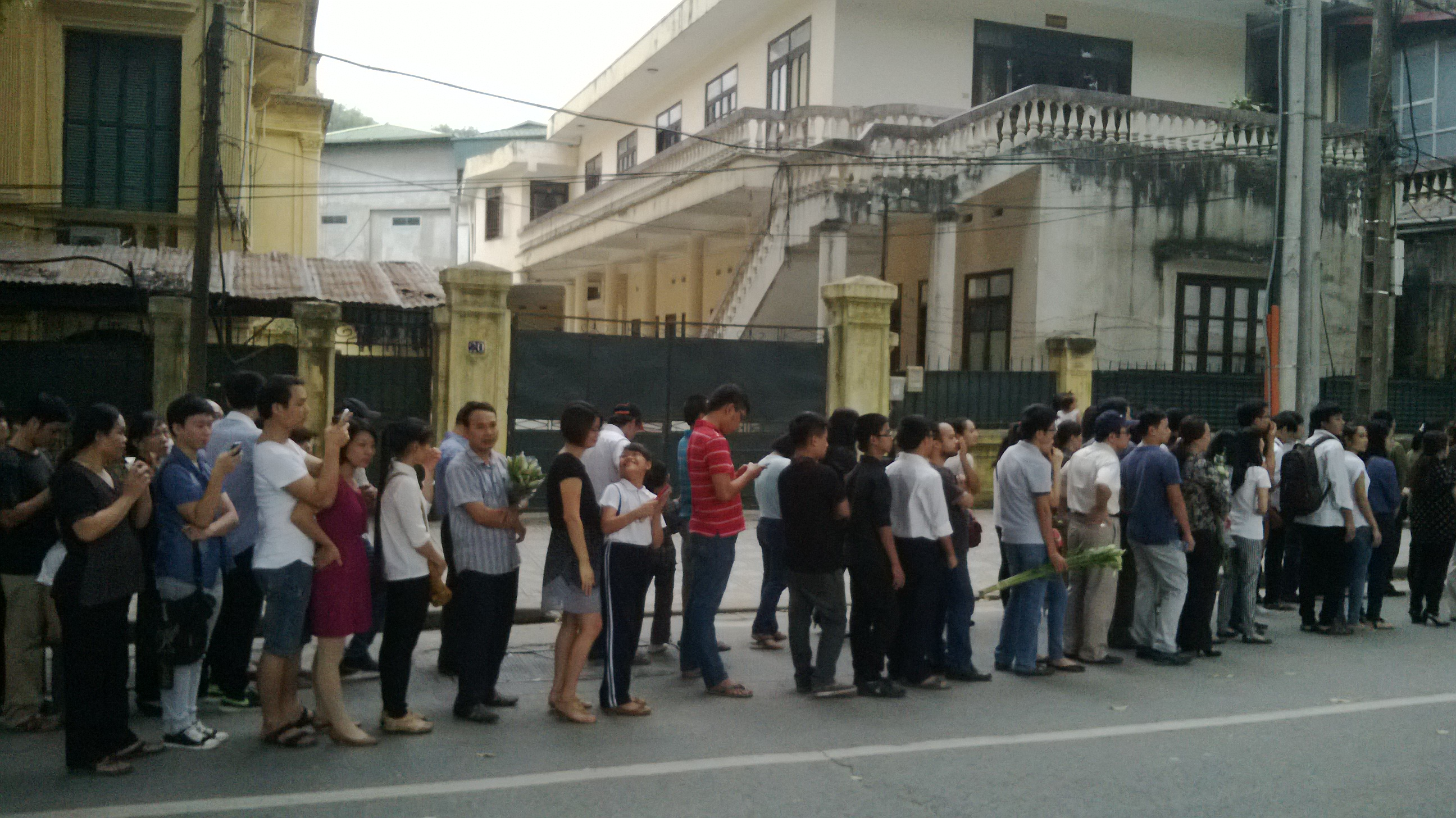 Vietnamese people are lining and waiting to come in to say goodbye to General Võ Nguyên Giáp, at Hoàng Diệu street, Hanoi